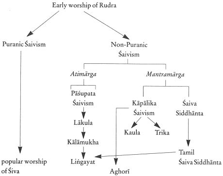 Development of Shaivism